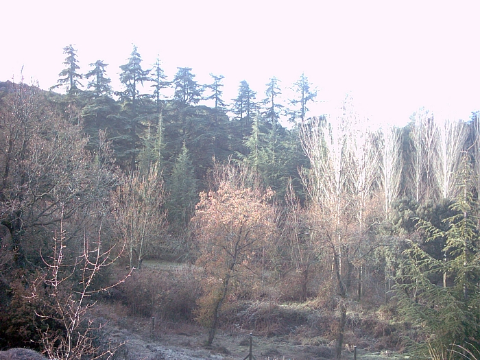 A work release by Francisco Javier Martin Lopez, in Arboretum "La Alfaguara" , Sierra de la Alfaguara into the Parque Natural de la Sierra de Huétor, Alfacar, province of Granada (Spain) 2006, January 7. A free donation to Wikipedia.